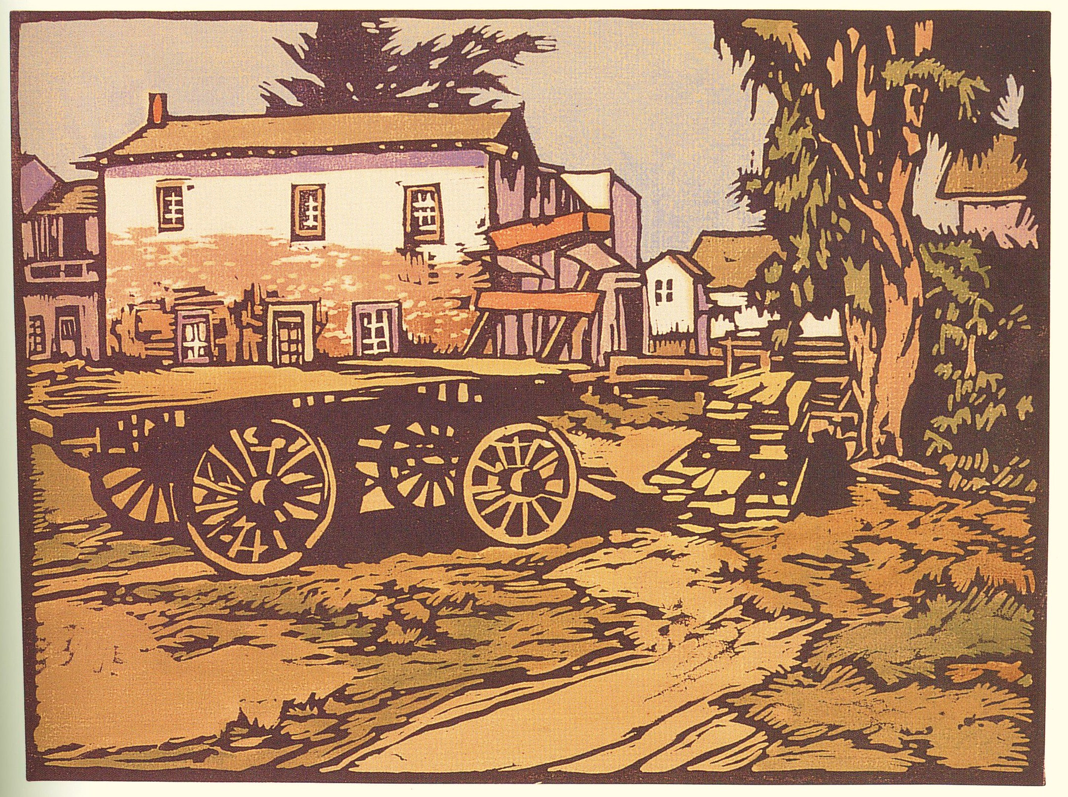 An image of a 1915 woodblock print "R. L. Stevenson House - Monterey"